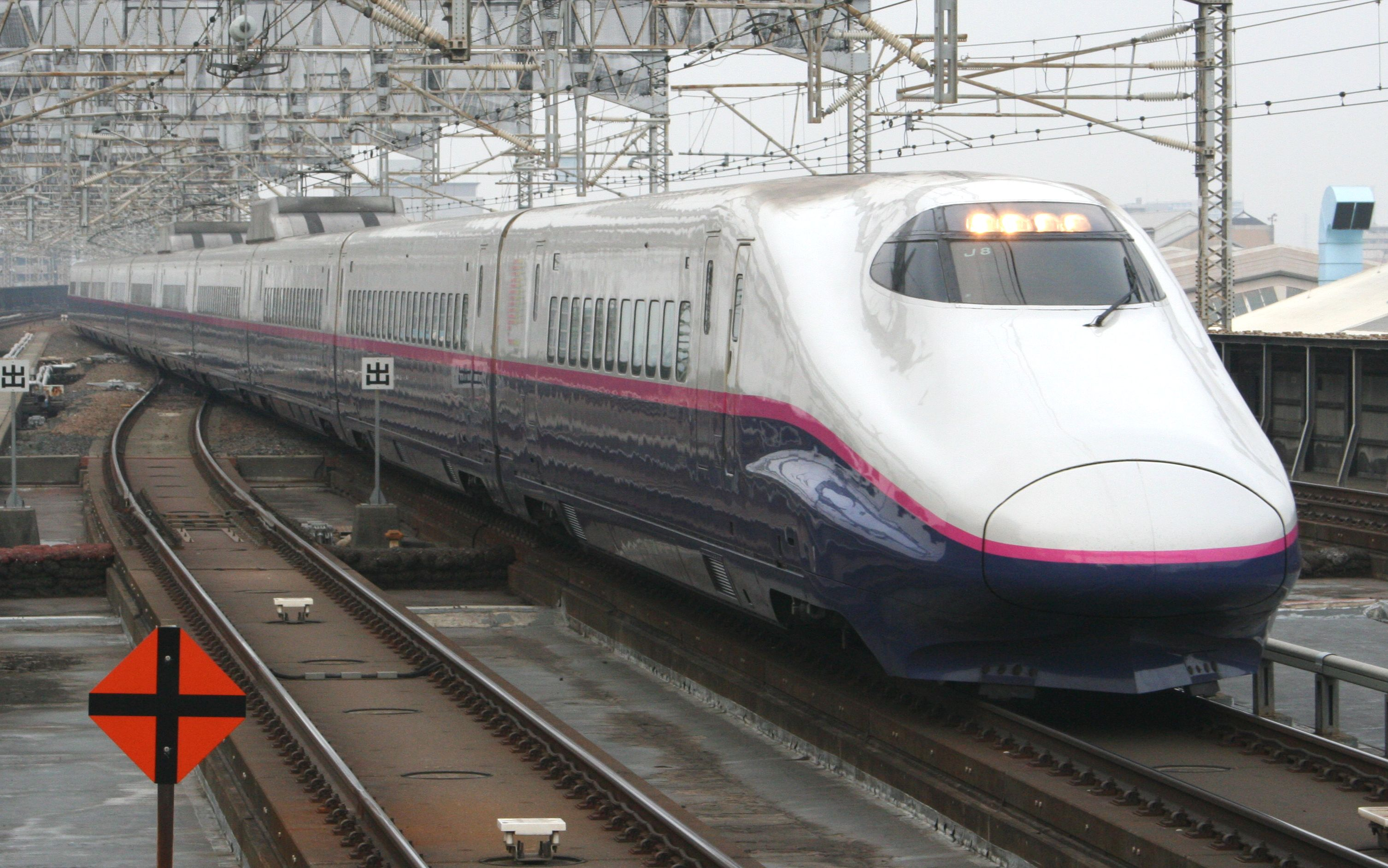 JR East E2 series set J8 approaching Omiya Station on the Tokyo-bound Nasuno 272 service